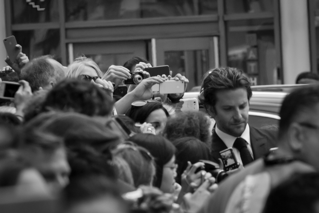 At the premiere of "Silver Linings Playbook", directed by David O. Russell, during the Toronto International Film Festival, 2012.